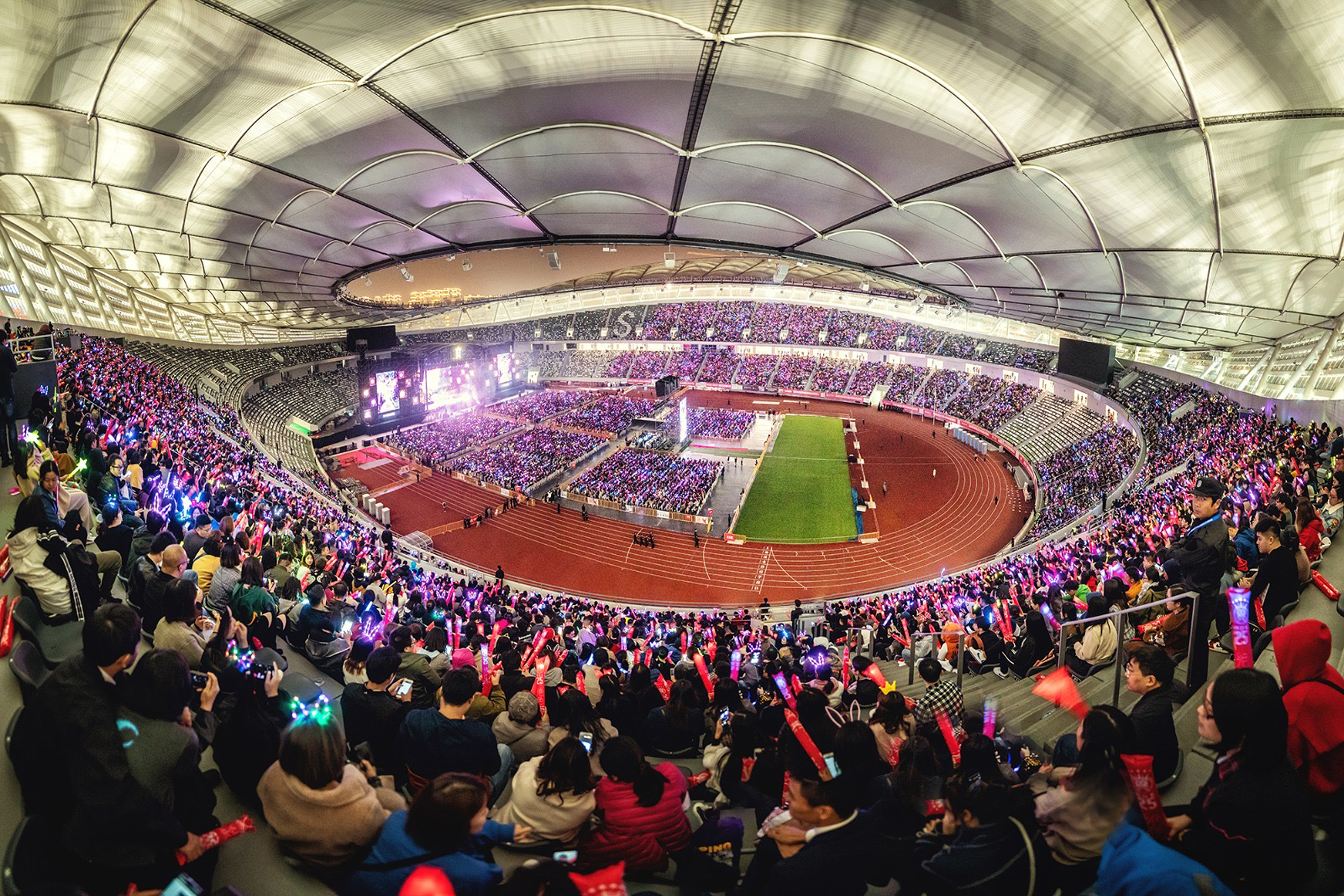 Open air pop concert